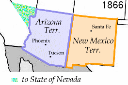 New Mexico Territory and Arizona Territory borders in 1866